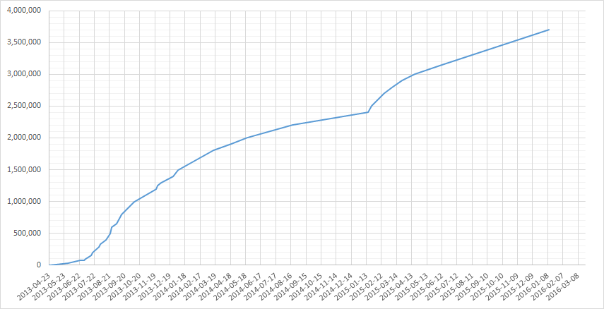 Data plot of the user penetration of the online game Kantai Collection. Values are from 2013-04-23 to 2016-`-11. The blue data series represents an approximation of the number of players registered to the game, based on data values announced by the developers on the official Twitter page, and other official announcements. Raw numerical data is compiled based on official information available. Data used to plot the graph: 23-04-2013 - 30-05-2013 30,000 23-06-2013 78,460 2-07-2013 78,460 4-07-2013 100,000 15-07-2013 150,000 19-07-2013 200,000 31-07-2013 280,000 3-08-2013 326,000 14-08-2013 400,000 22-08-2013 500,000 26-08-2013 600,000 4-09-2013 650,000 14-09-2013 800,000 9-10-2013 1,000,000 22-11-2013 1,200,000 25-11-2013 1,250,000 1-12-2013 1,300,000 26-12-2013 1,400,000 4-01-2014 1,500,000 15-03-2014 1,800,000 19-04-2014 1,900,000 22-05-2014 2,000,000 20-08-2014 2,200,000 16-01-2015 2,400,000 23-01-2015 2,500,000 17-02-2015 2,700,000 7-03-2015 2,800,000 25-03-2015 2,900,000 19-04-2015 3,000,000 11-06-2015 3,150,000 11-01-2016 3,700,000 data values taken from references cited by moegirl wiki KanColle Naval District article as well as Chinese Wikipedia KanColle article, Note that some blog article linked here are actually copies of sources that are potentially behind registration wall and some tweets quoted are from official twitter account. Possible Addition: Add a 20k "target" line to the game, according to Derived into: File:KanColle user penetration 1st half.png File:KanColle user penetration log.png